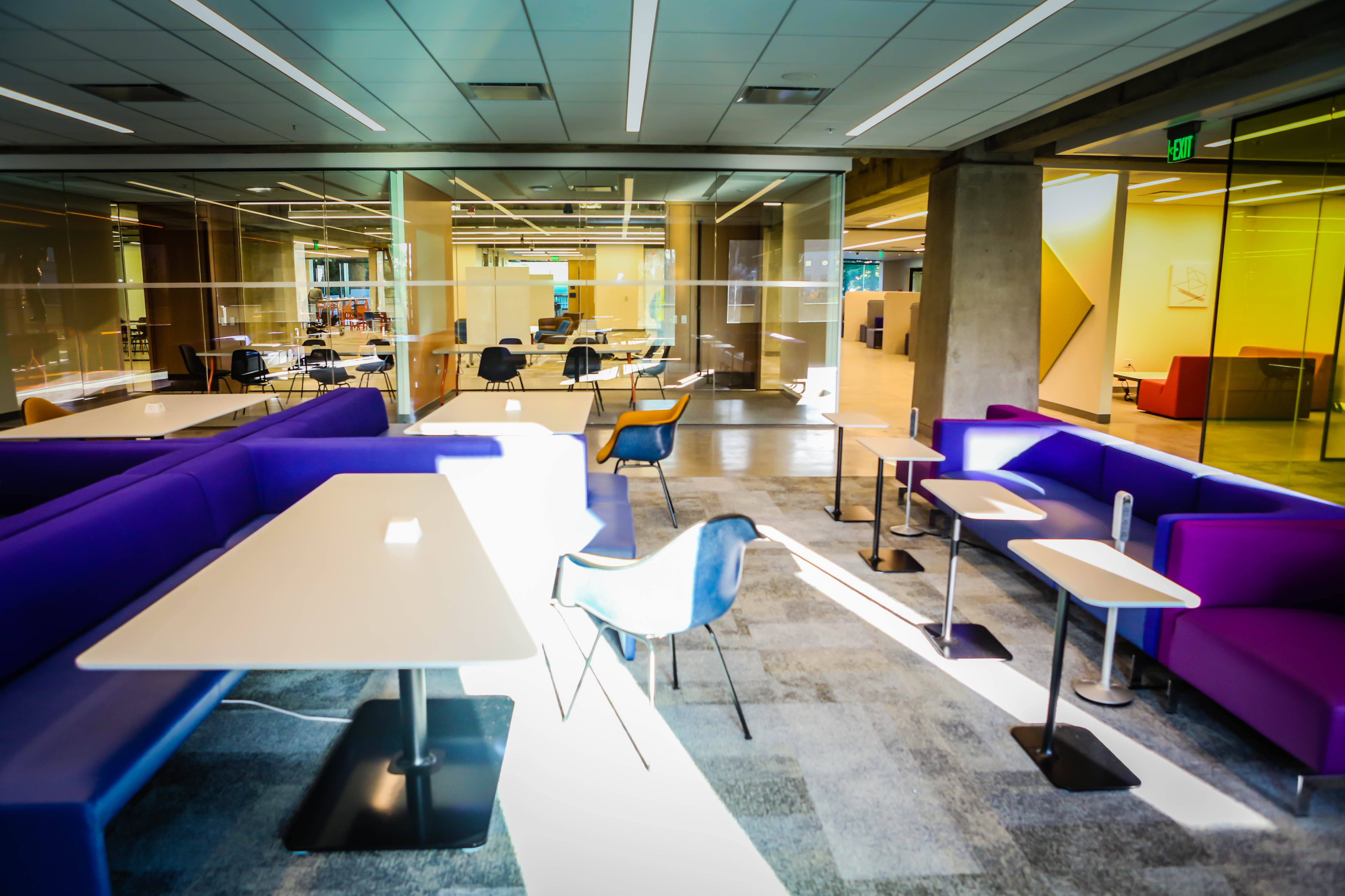 Newly renovated 4th and 5th floors include group study spaces, movable furniture and spaces for collaboration